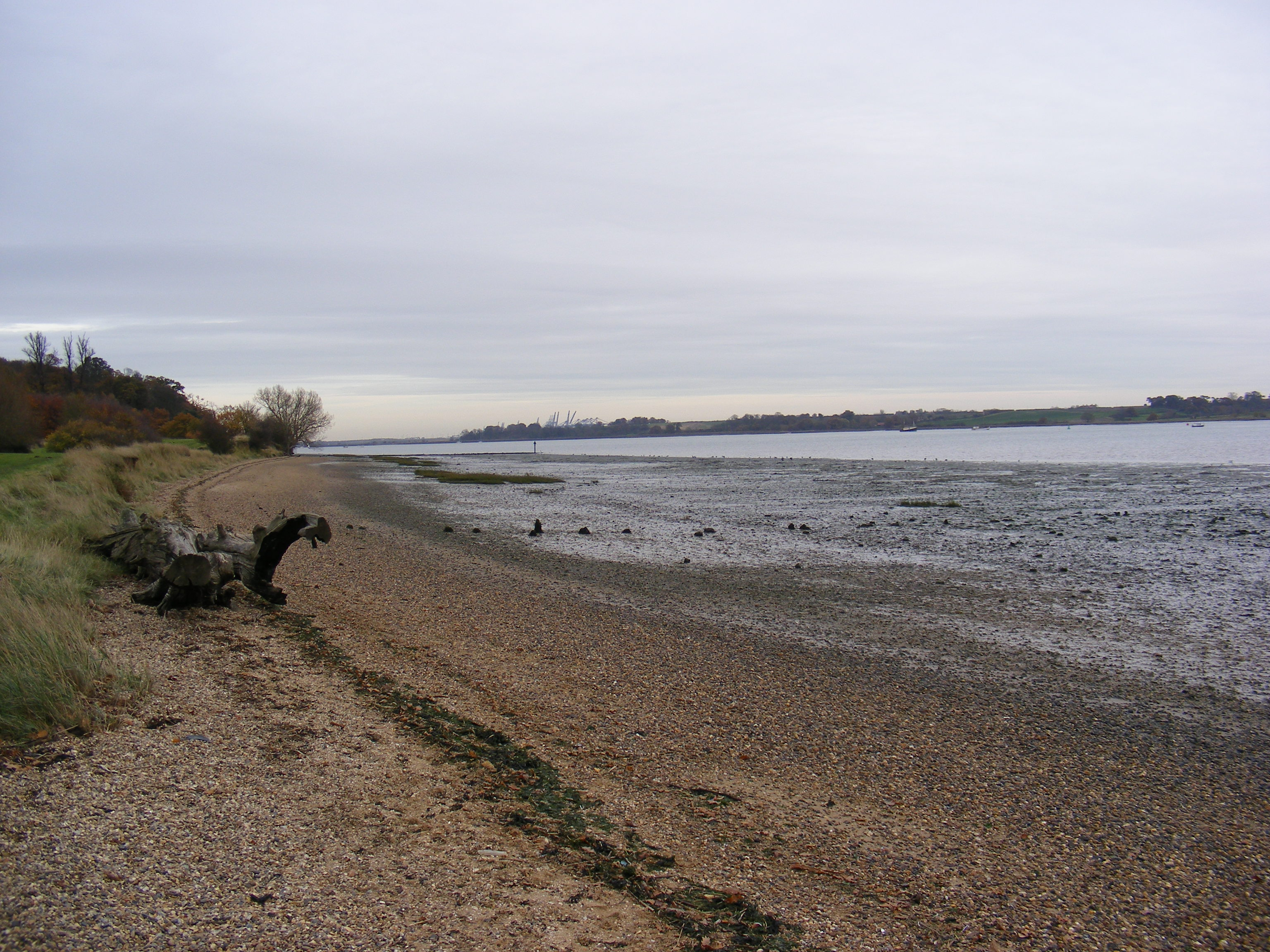 River Orwell Shore Looking towards Felixstowe Docks